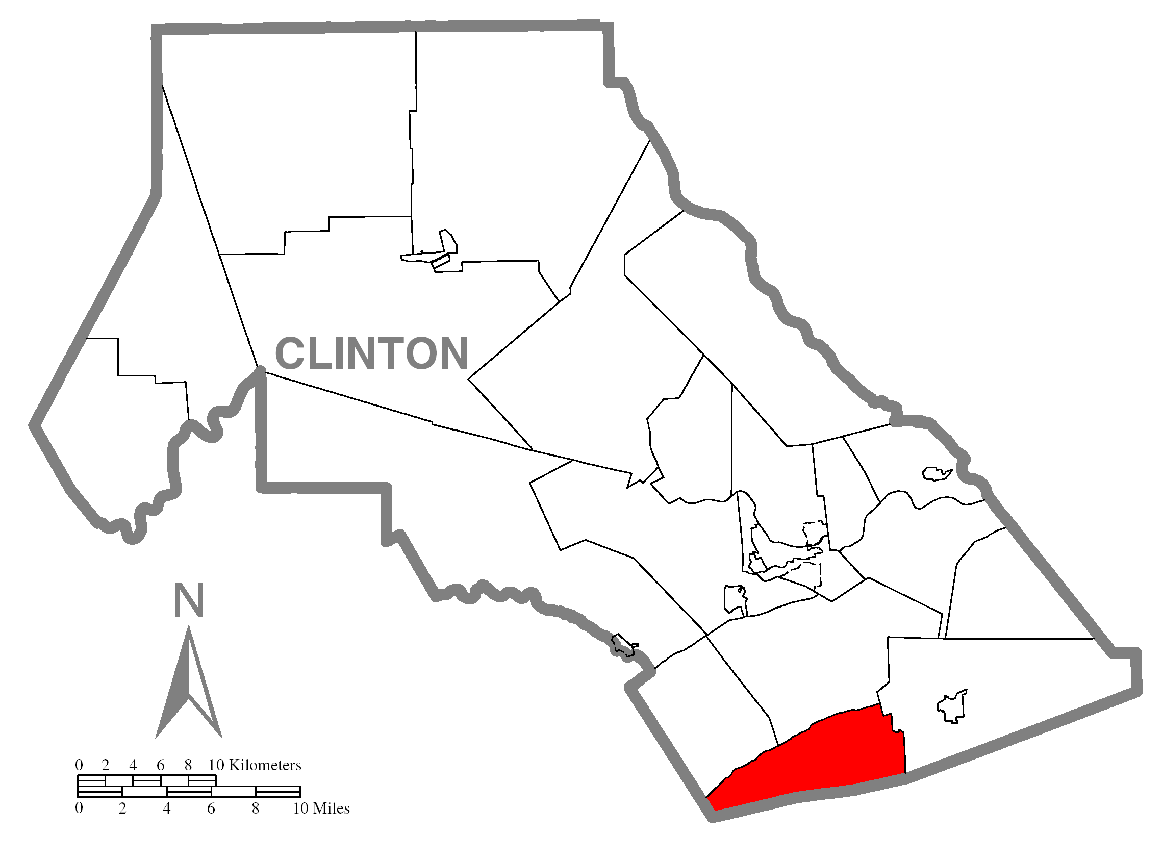 A map of Clinton County showing Logan Township, Pennsylvania (alternate) highlighted on the map.